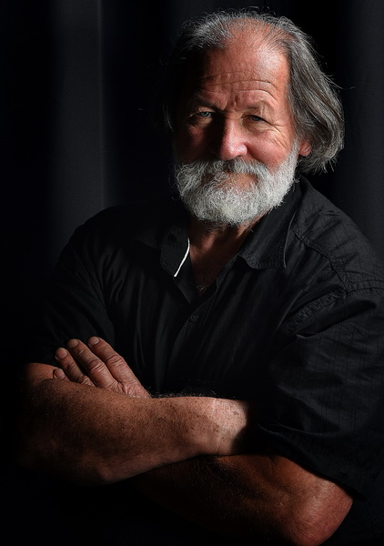 Ferenc Buda, Hungarian poet.